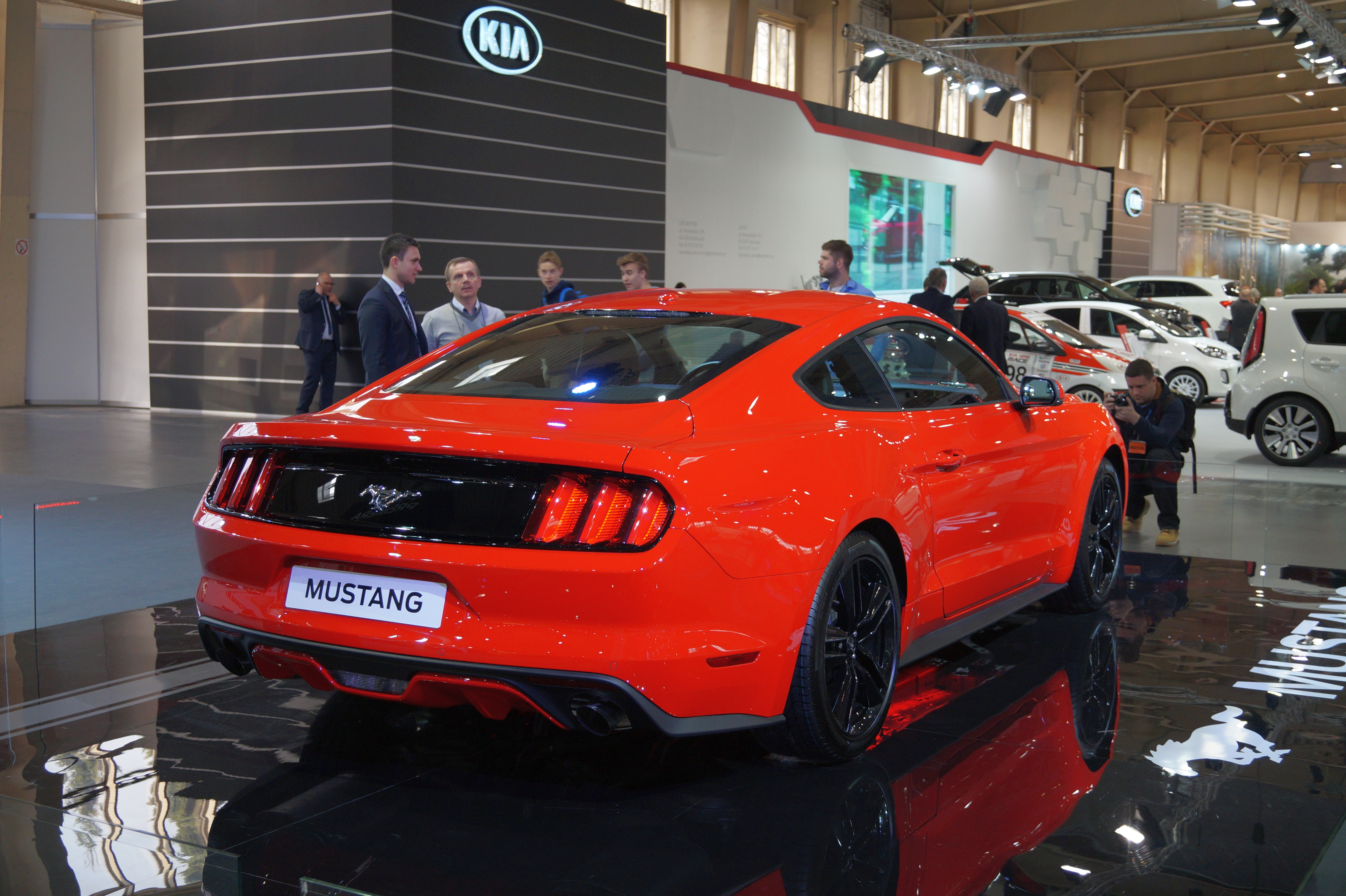 The making of this document was supported by Wikimedia Polska Association, within Wikigrant no. WG 2015-19. Tył Forda Mustanga na Motor Show Poznań 2015